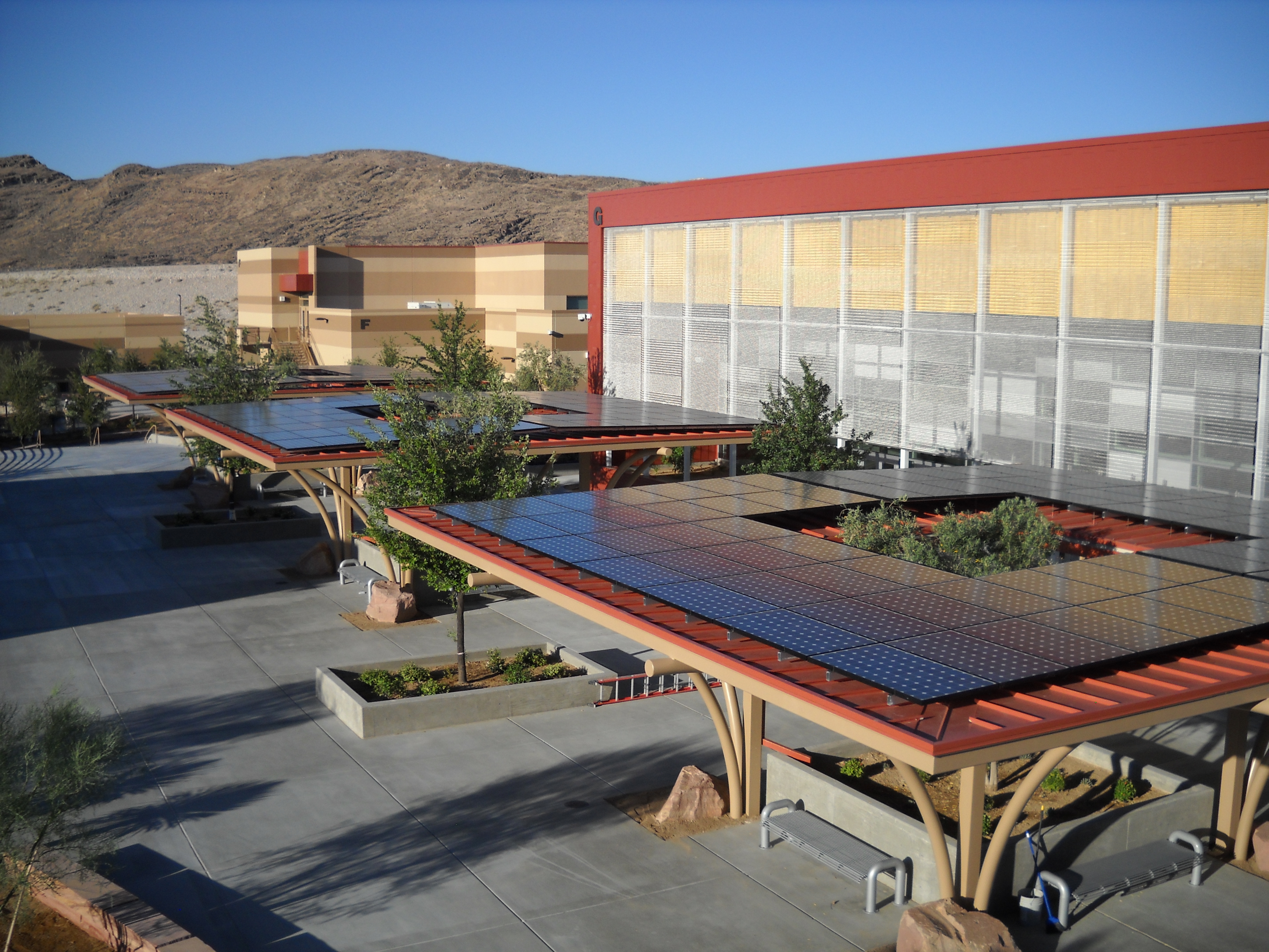 Bombard Renewable Energy project, West Career and Technical Academy, Las Vegas